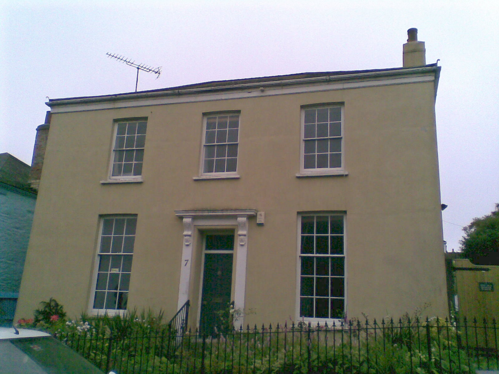 Building in Kimberley Place, Falmouth, UK which used to be a school for Quaker children in the 19th century. The school was conducted by Lovell Squire.